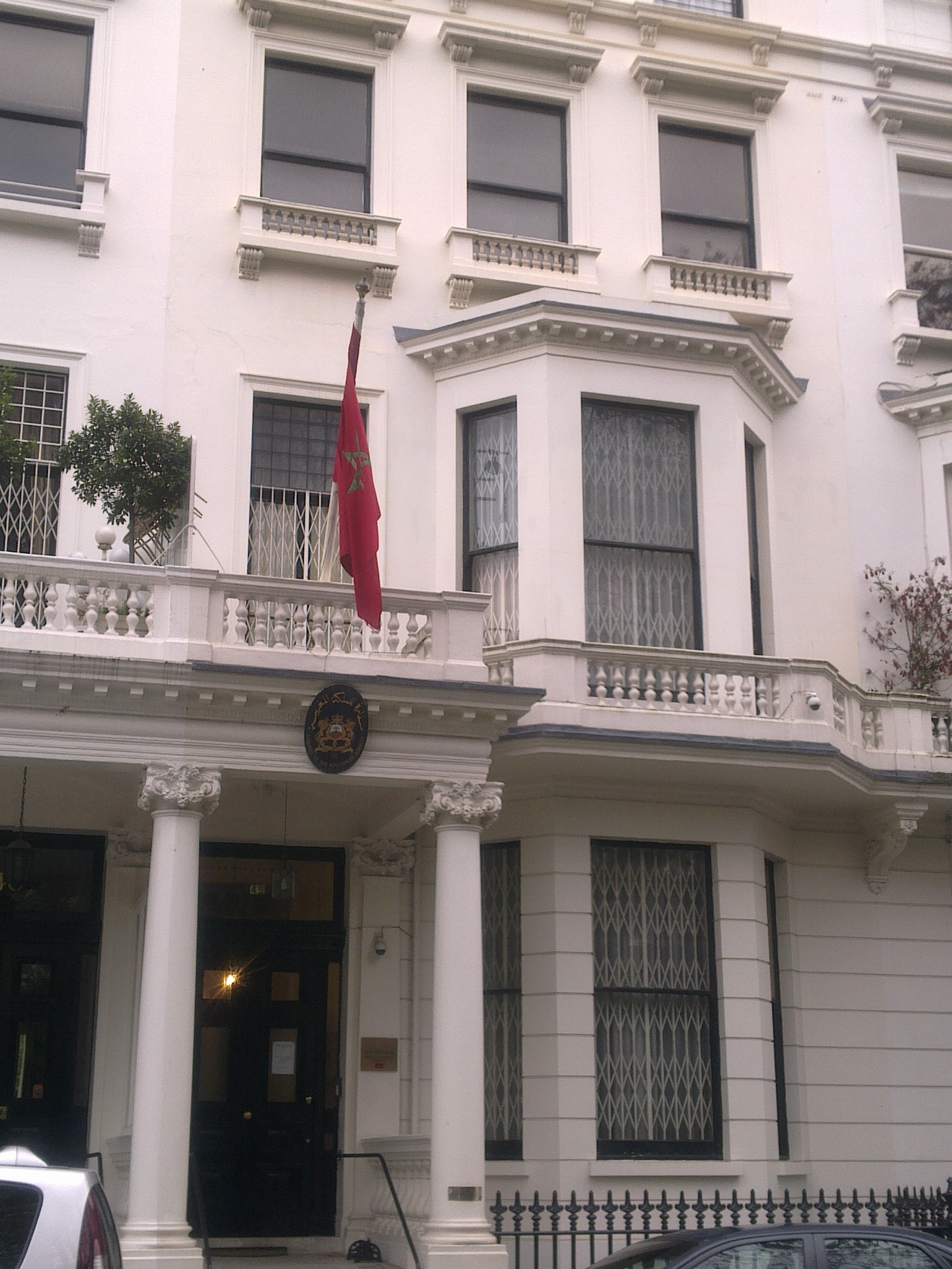 Embassy of Morocco in London 1